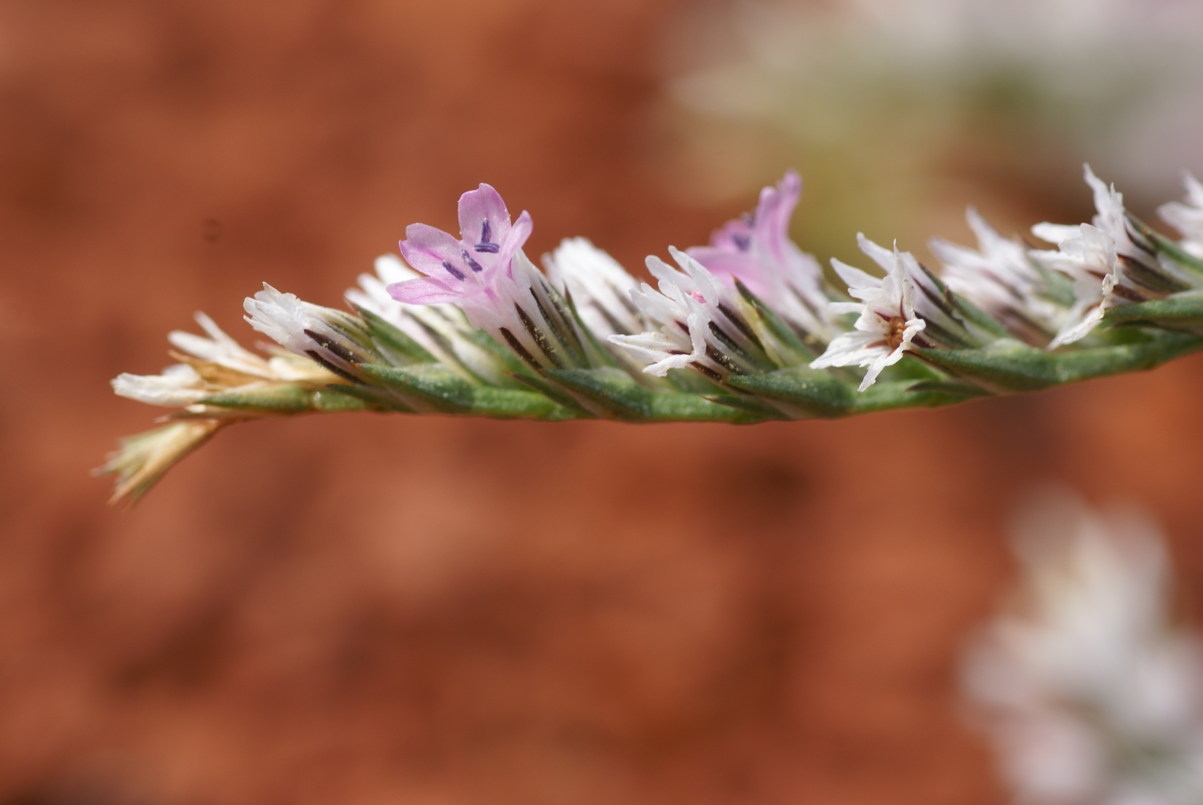 Plant species Goniolimon tataricum in Botaniska trädgården, Uppsala